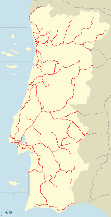 Locator Map for Portuguese railways